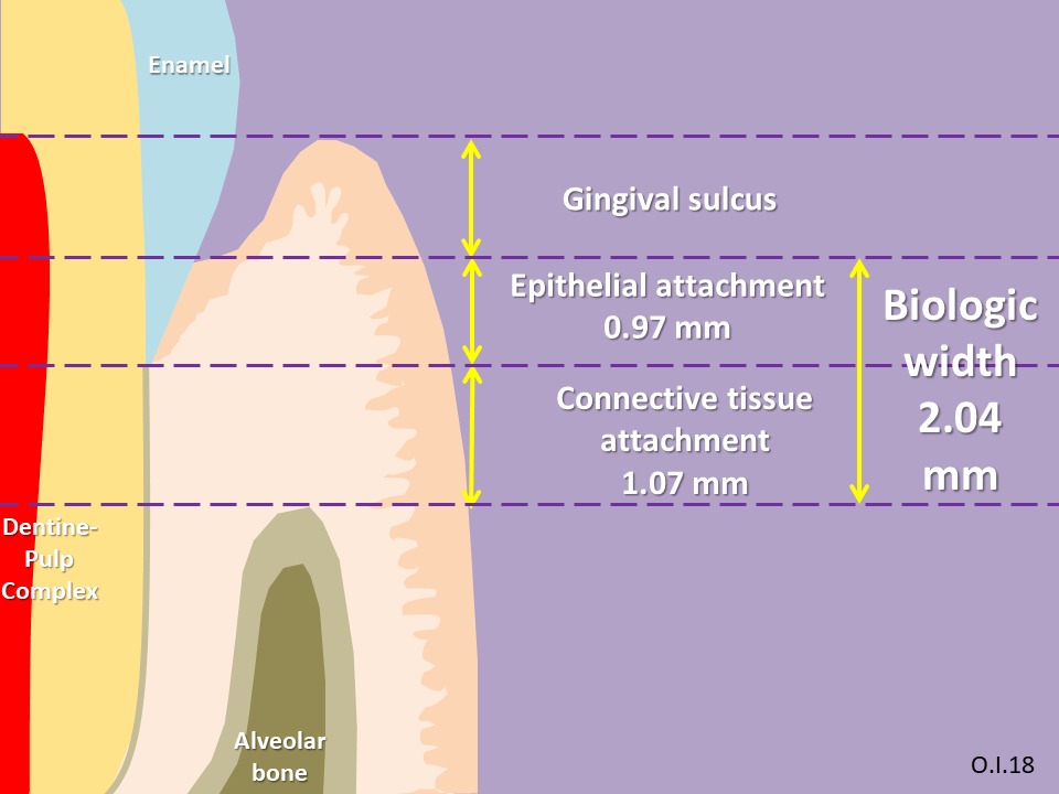 biologic width (dentistry)